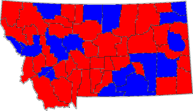 1996 Montana Senate election results by county.